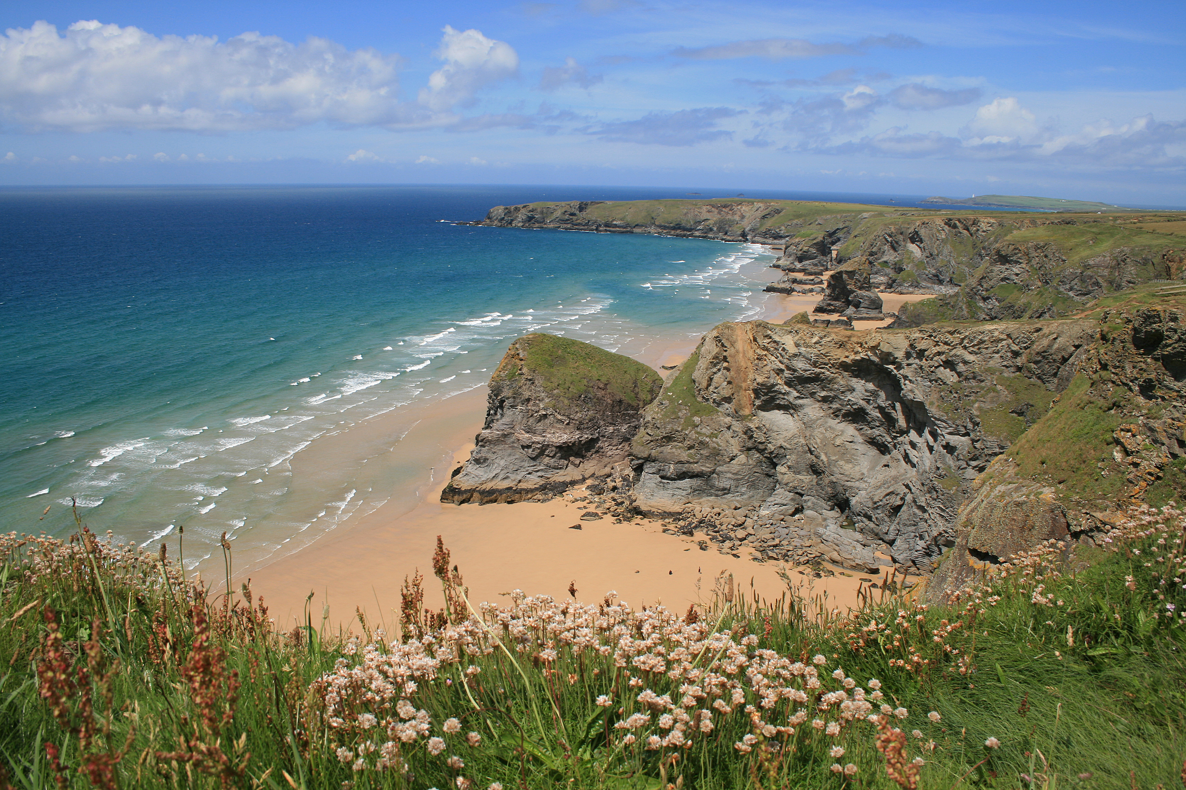 Bedruthan, Cornwall, UK.